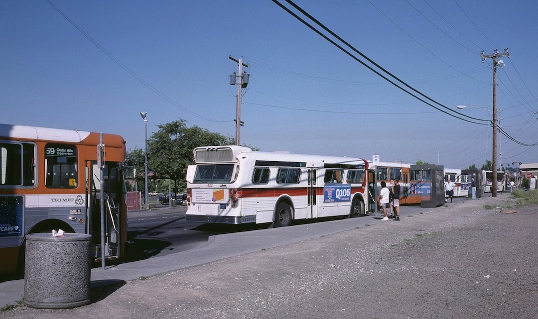 TriMet's original Beaverton Transit Center (in Beaverton, Oregon) opened in June 1979 and closed in September 1988, replaced by a new center located to the north. This photo shows the original center in June 1988, less than three months before it closed, during a timed-transfer "meet" of buses serving several different routes. The original Beaverton TC was relatively very spartan compared with the 1988-opened facility, with small passenger shelters of the same type TriMet used at bus ordinary bus stops around its system. The center was located in downtown Beaverton, south of Broadway, west of Lombard and north of the Southern Pacific (now Portland & Western) railroad right-of-way. This photo is looking east. Among the five buses in this photo are two 1976 AM General buses, two 1972 Flxible "New Look" buses and one 1981/82 Crown-Ikarus articulated bus.